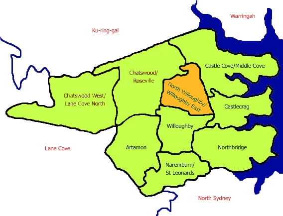 Map of North Willoughby / Willoughby East in relation to other suburbs controlled by the Willoughby council, NSW, Australia. Image modified by uploader.